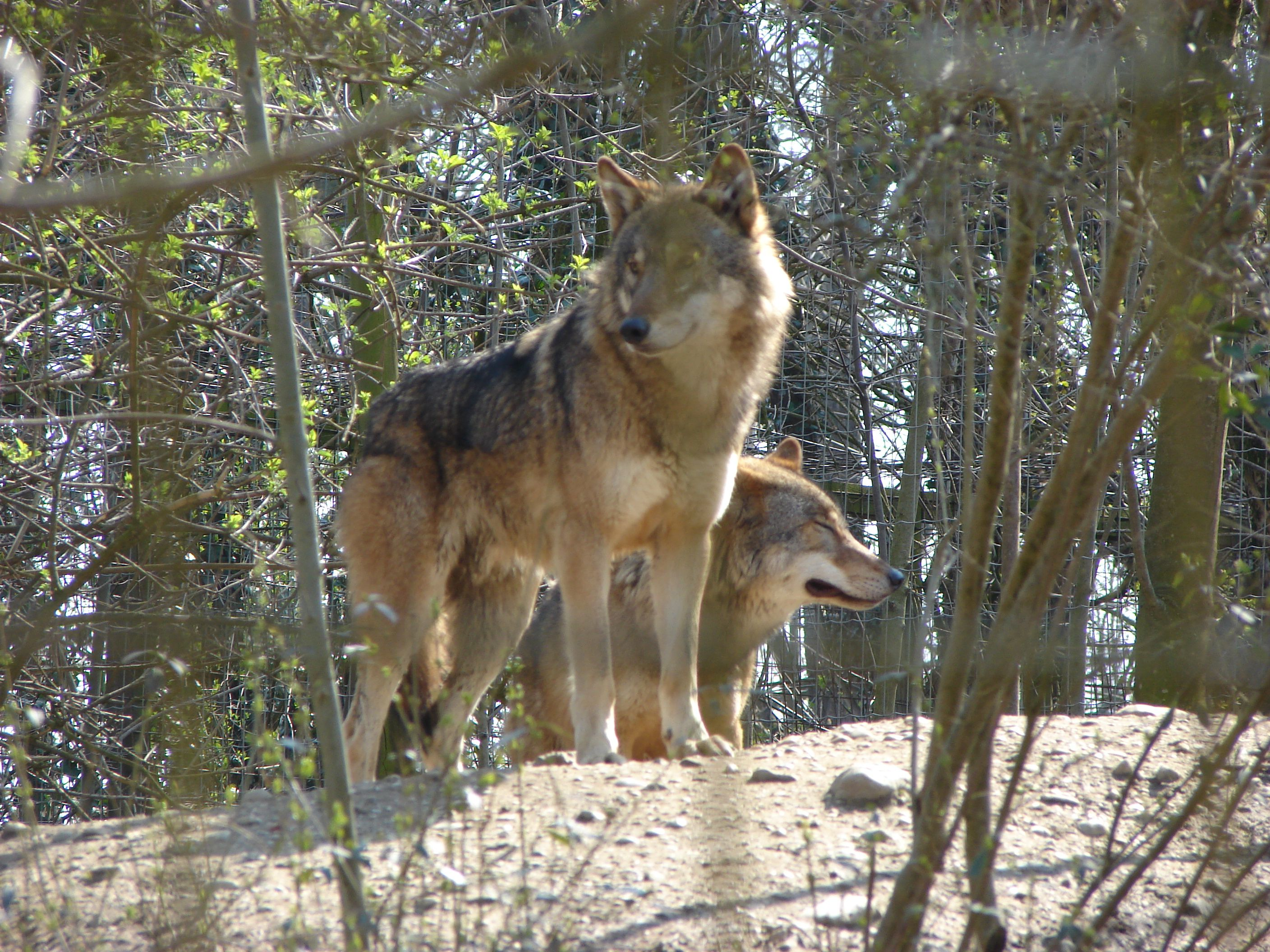 Gray Wolf in the zoo of Stadt Haag, Austria.